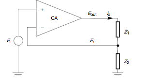 Scheme of a potentiostat